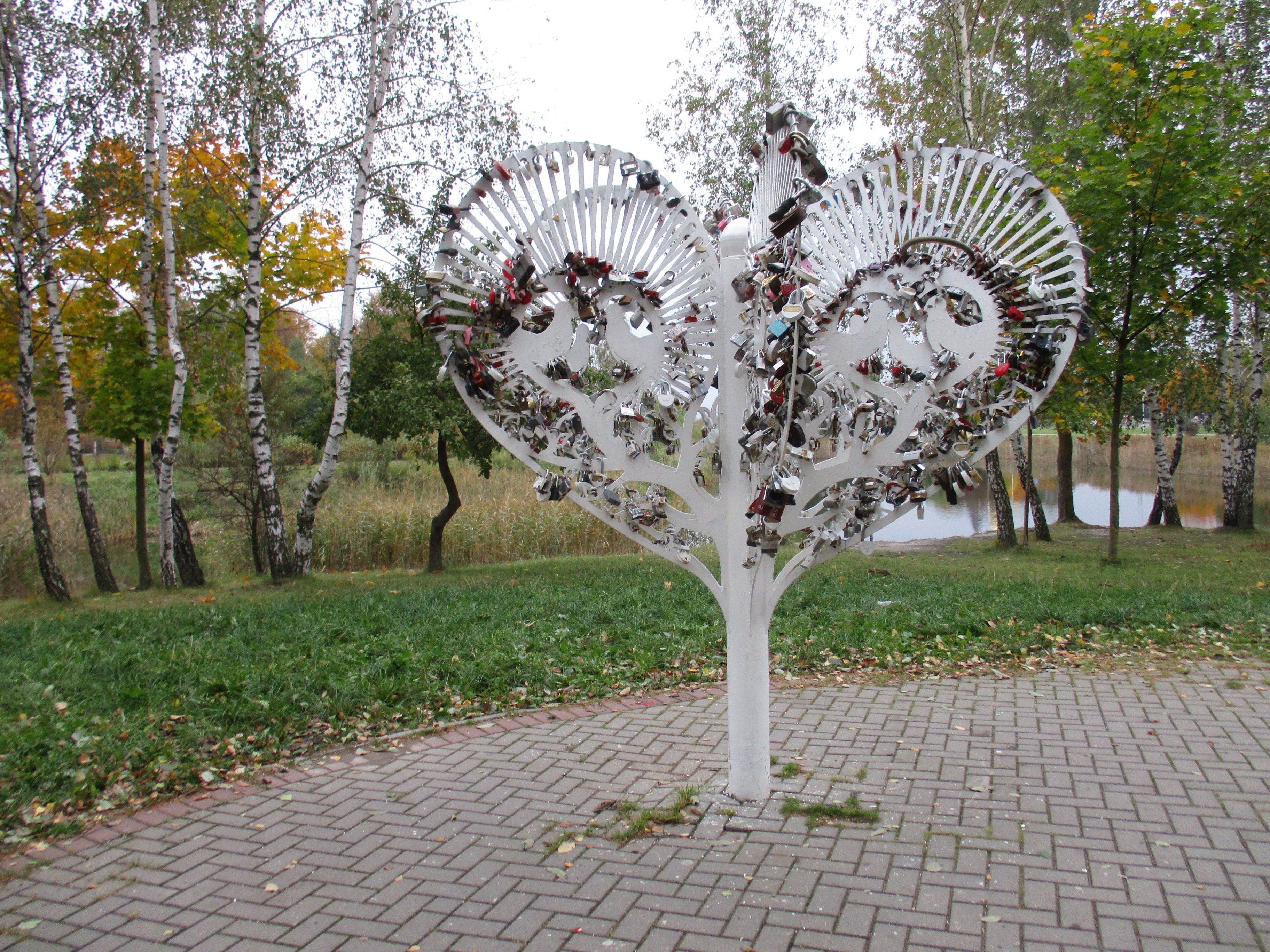 Дрэва на "Востраве закаханых"